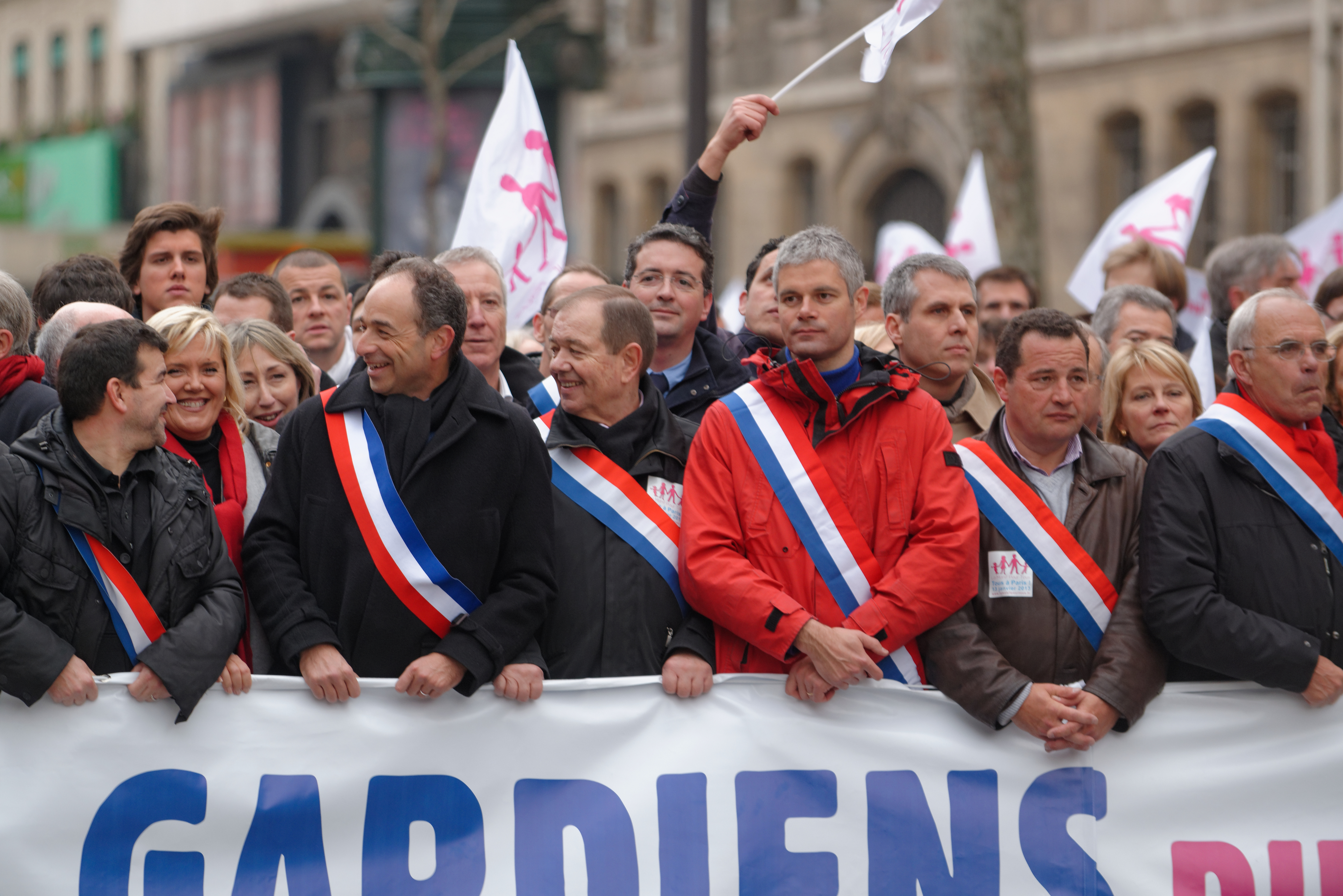 Demonstration against same-sex marriage in Paris on 13 January 2013 (“Manif pour tous”): the procession coming from Place d'Italie.